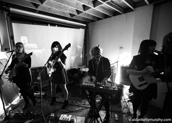 September Girls - band playing a live gig